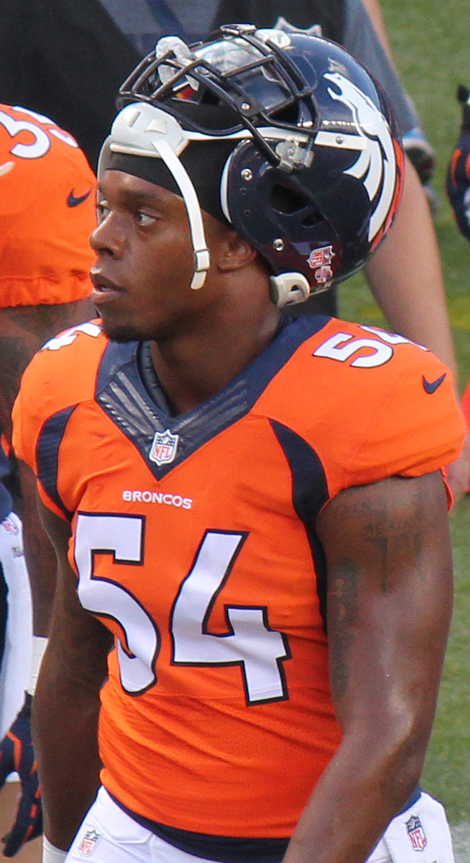 Brandon Marshall, a player on the National Football League.